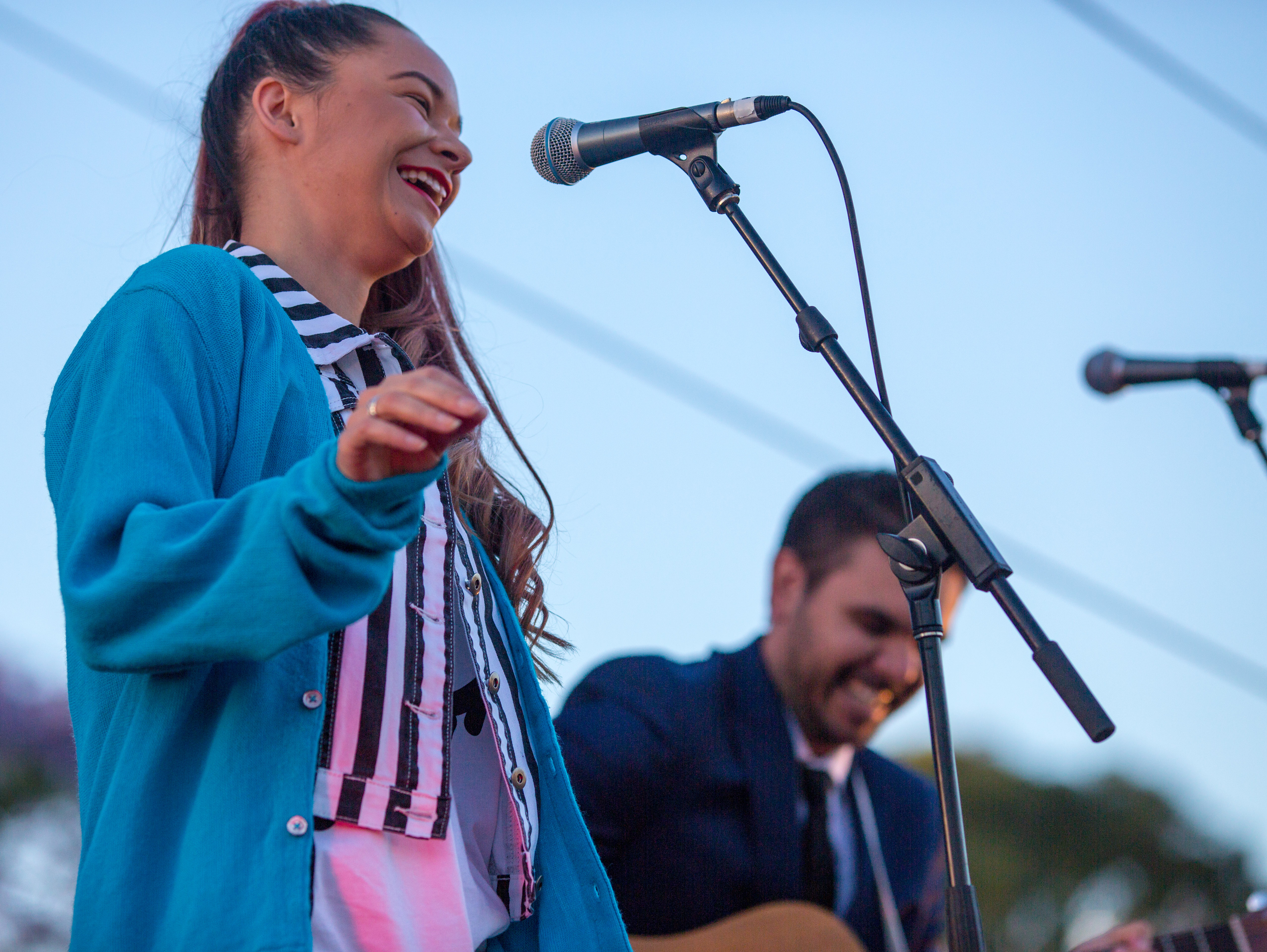 October 30, 2013